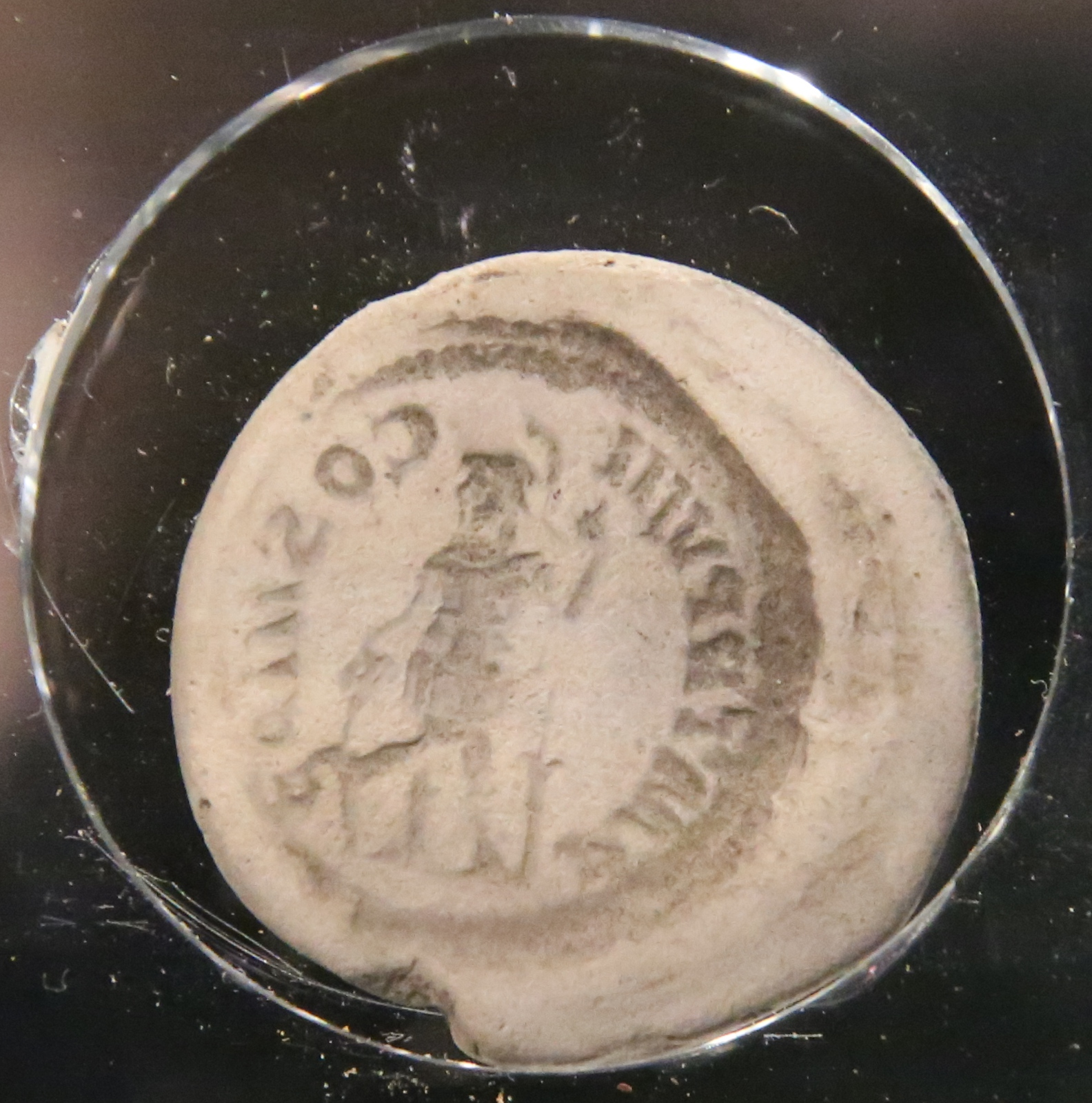 Photo of a mould used to cast fake silver roman coins. The original coins were minted by severus alexander